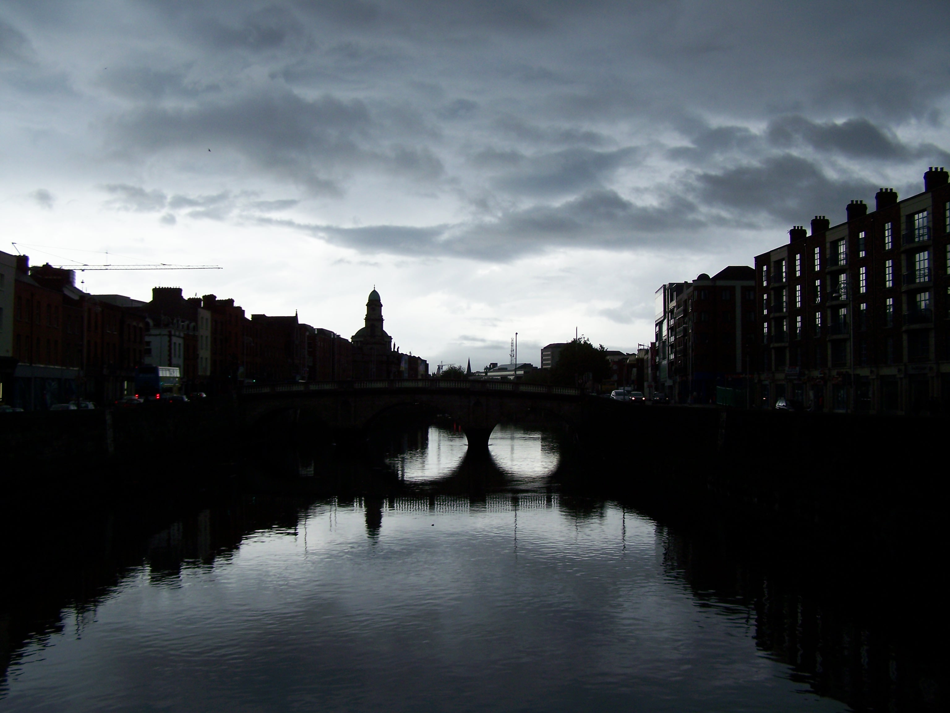 Bridge over the Liffey in Dublin.